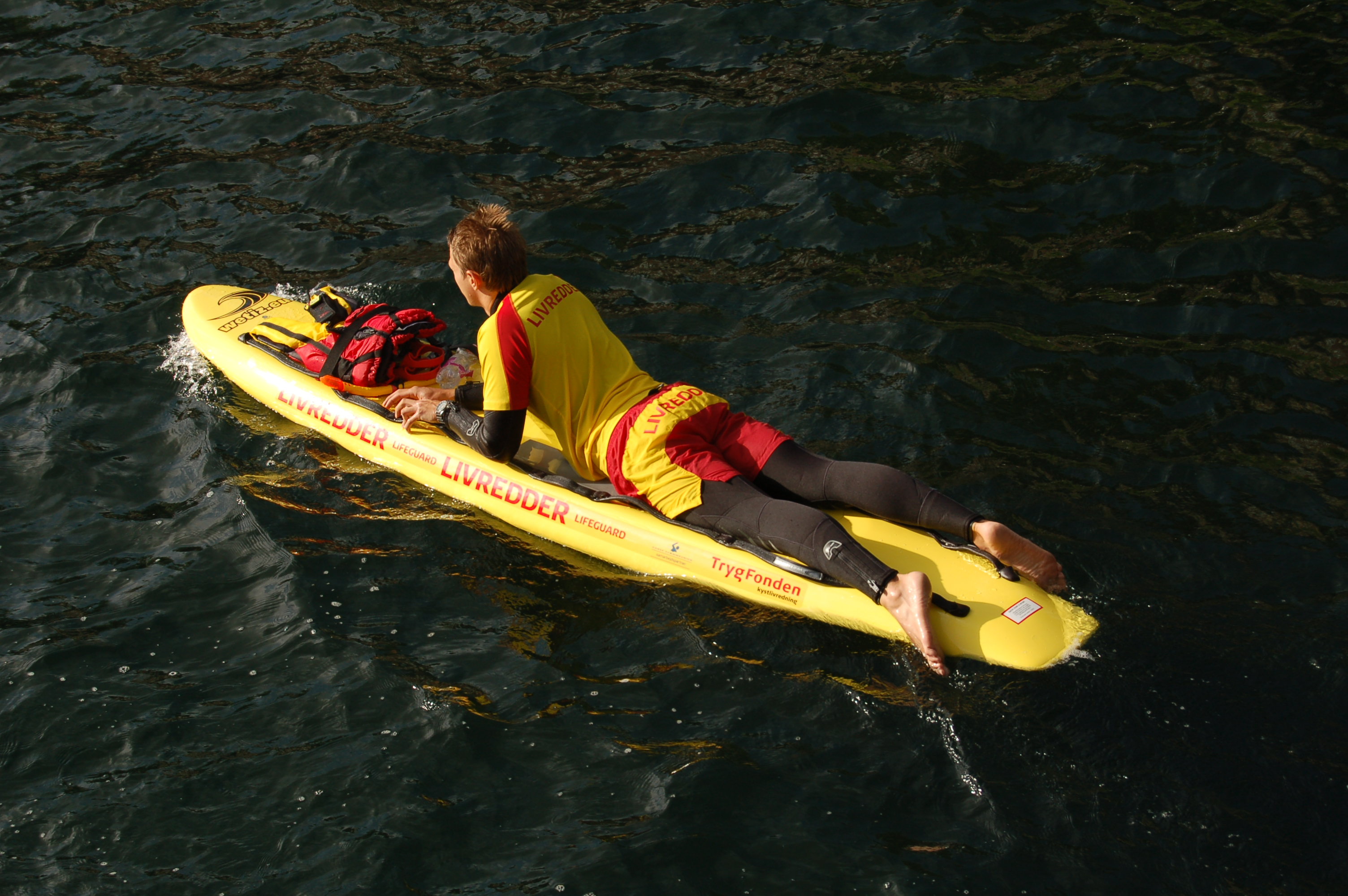 Life guard on rescue board. FINA 10K marathon swimming World Cup 2009, Copenhagen